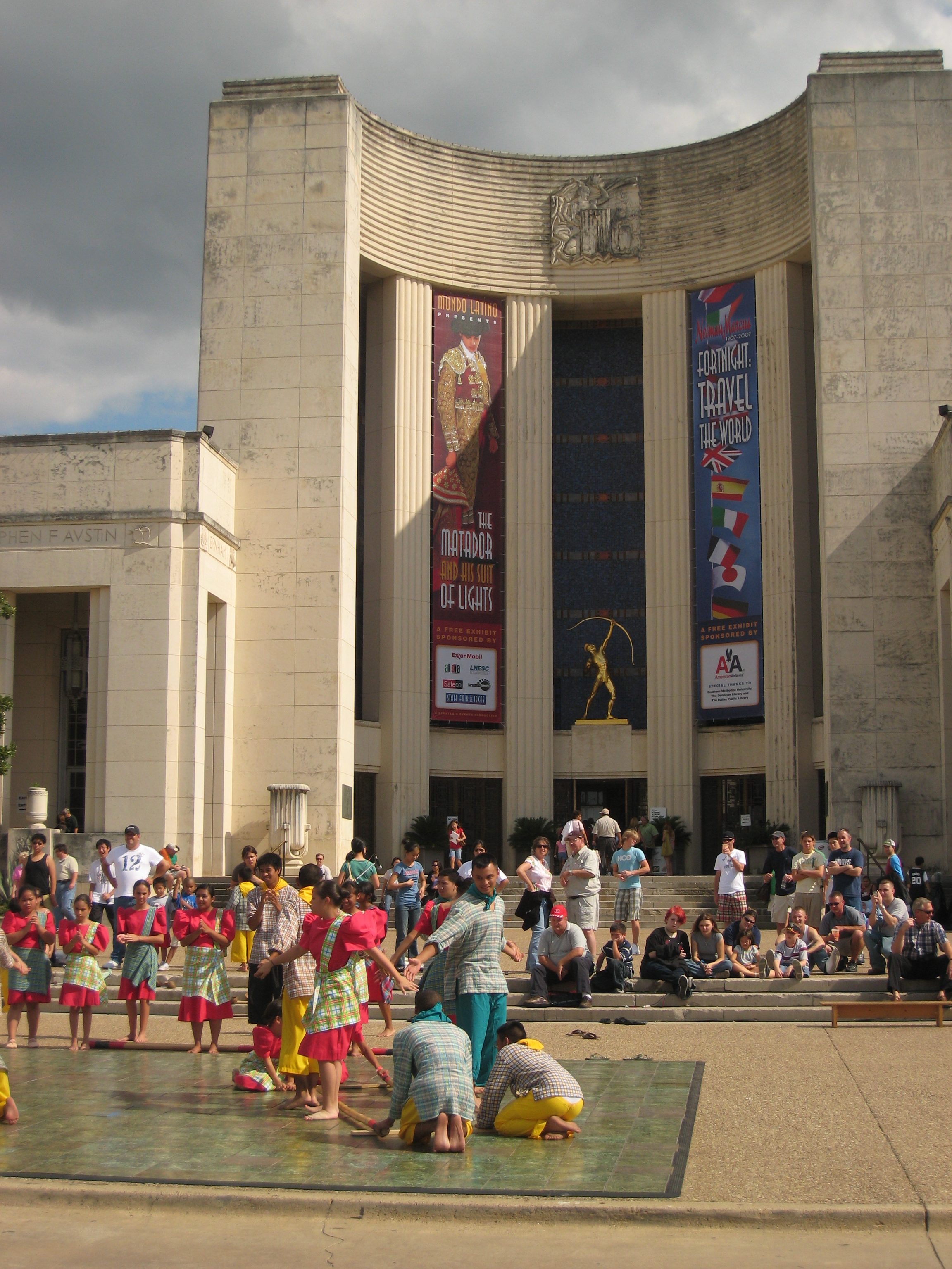 Texas State Fair 2007, Dallas.